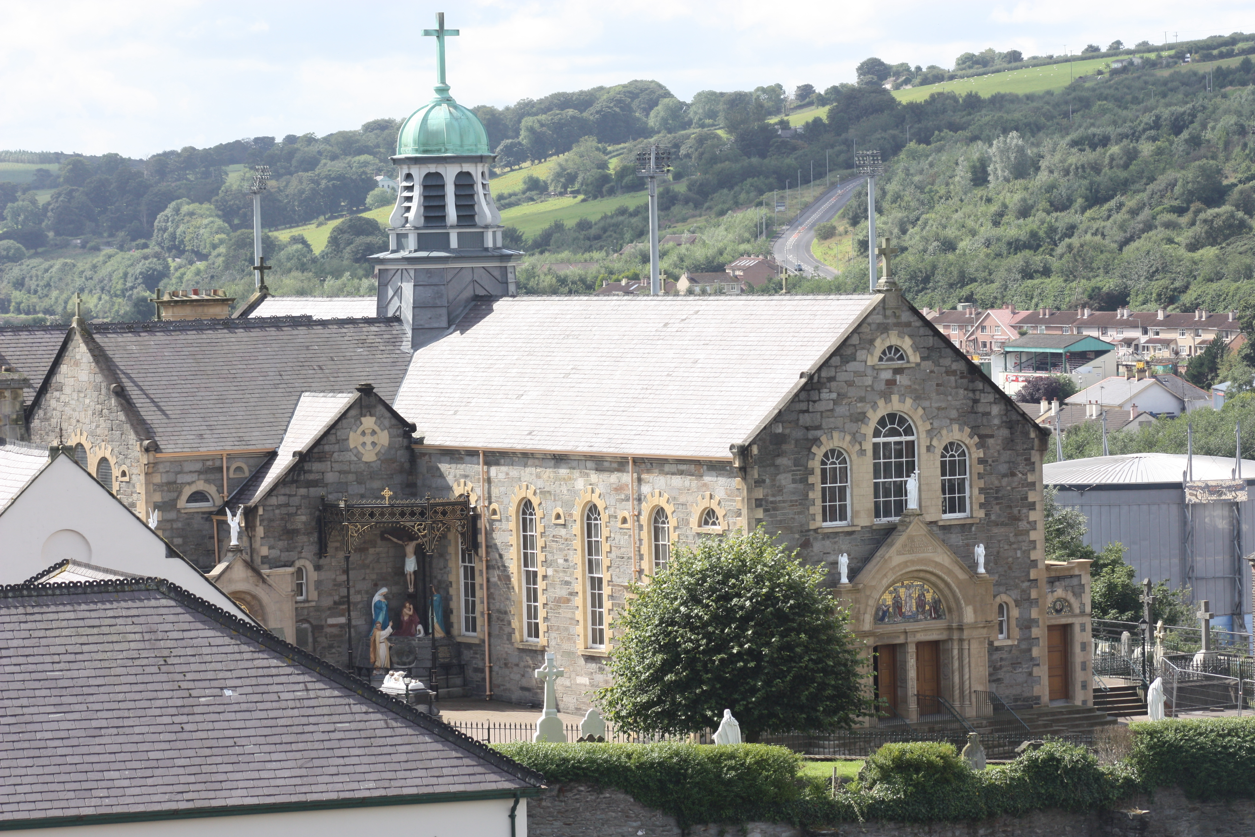 St Columba's Church, Long Tower, Derry, County Londonderry, Northern Ireland, August 2009 (viewed from the Walls of Derry)